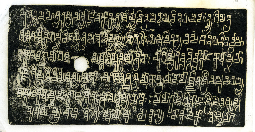 Tirodi copper-plate charter of Pravarasena II, second plate